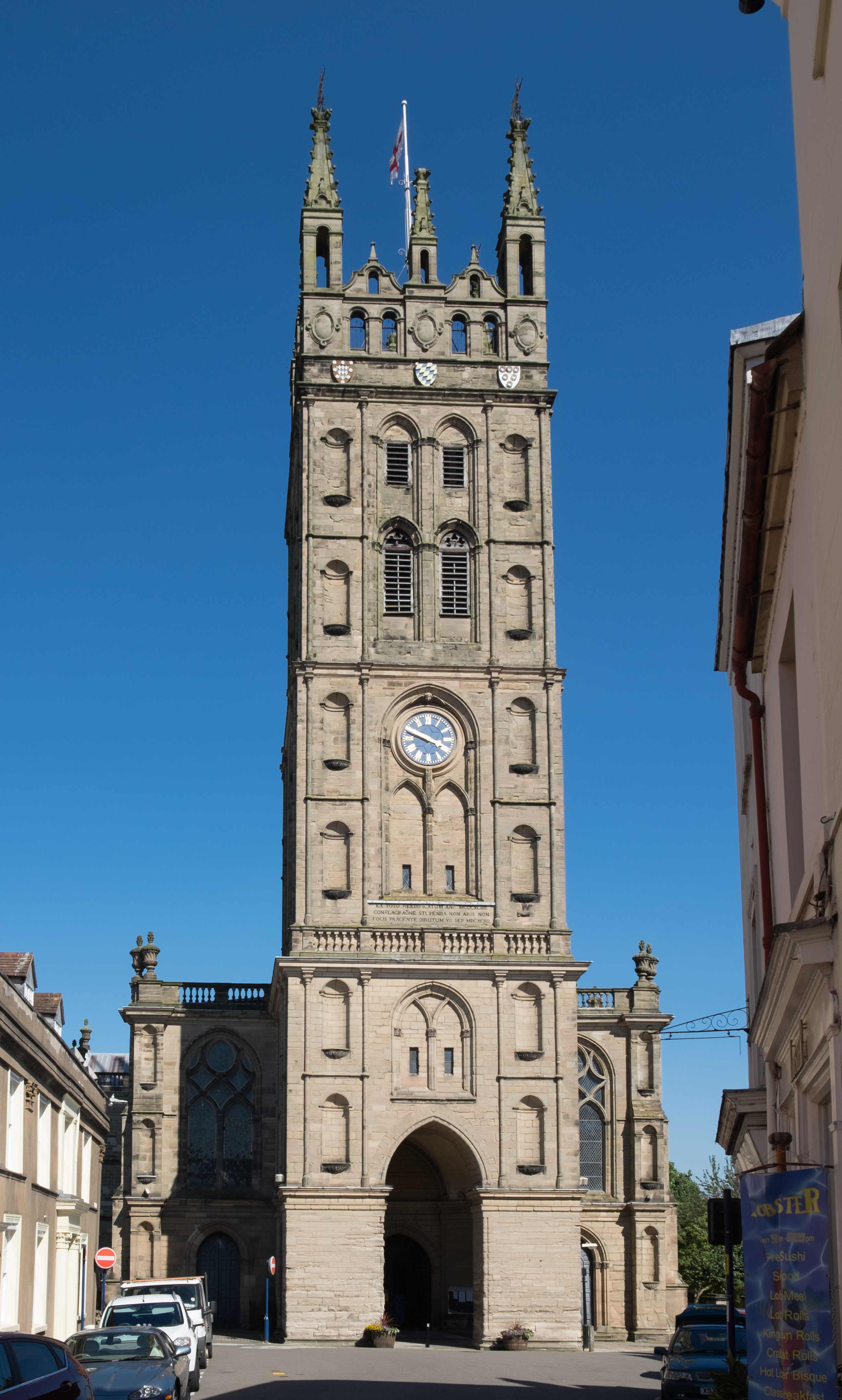 Collegiate Church of St Mary, Warwick. A Grade I Listed Building in England, the foundations of this church date back to 1123 and the tower is 130 feet (40 metres) tall.